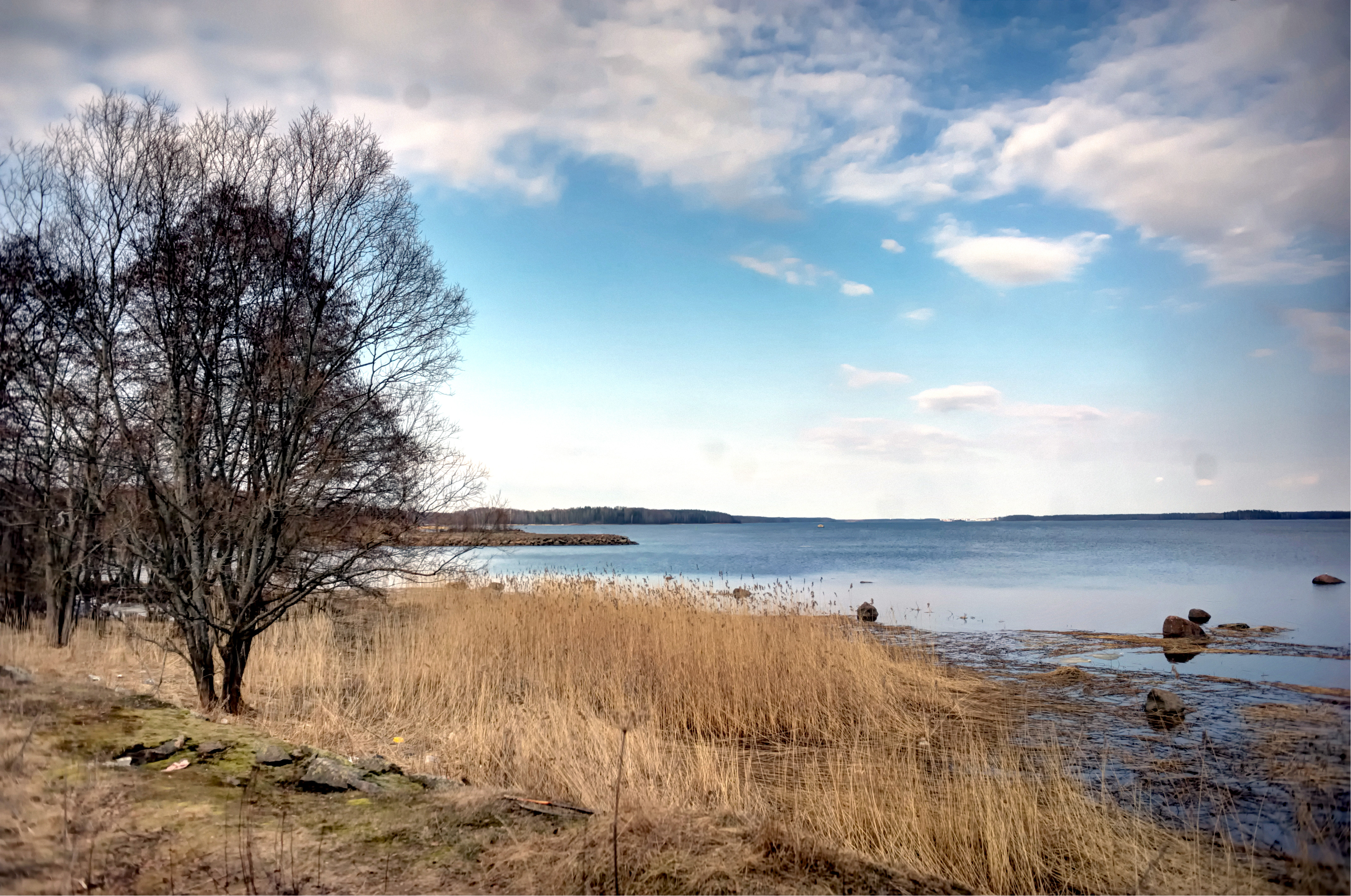 Uuras / Vysotsk 8.4.2016 Vyborg is in the picture (the white one).